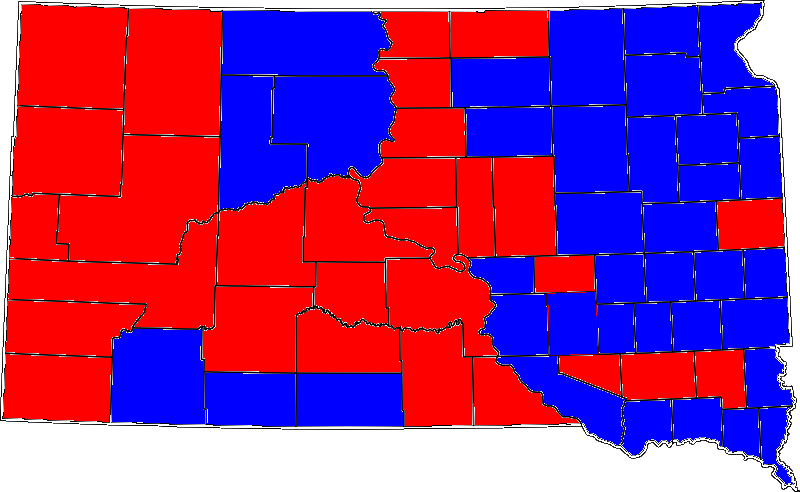 1986 South Dakota Senate election results by county.